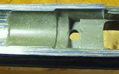 Rifle stock bedded with epoxy.